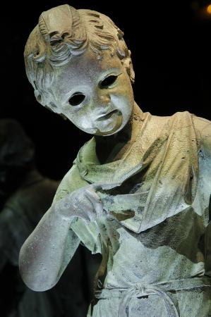 Bronze statue of the royal child